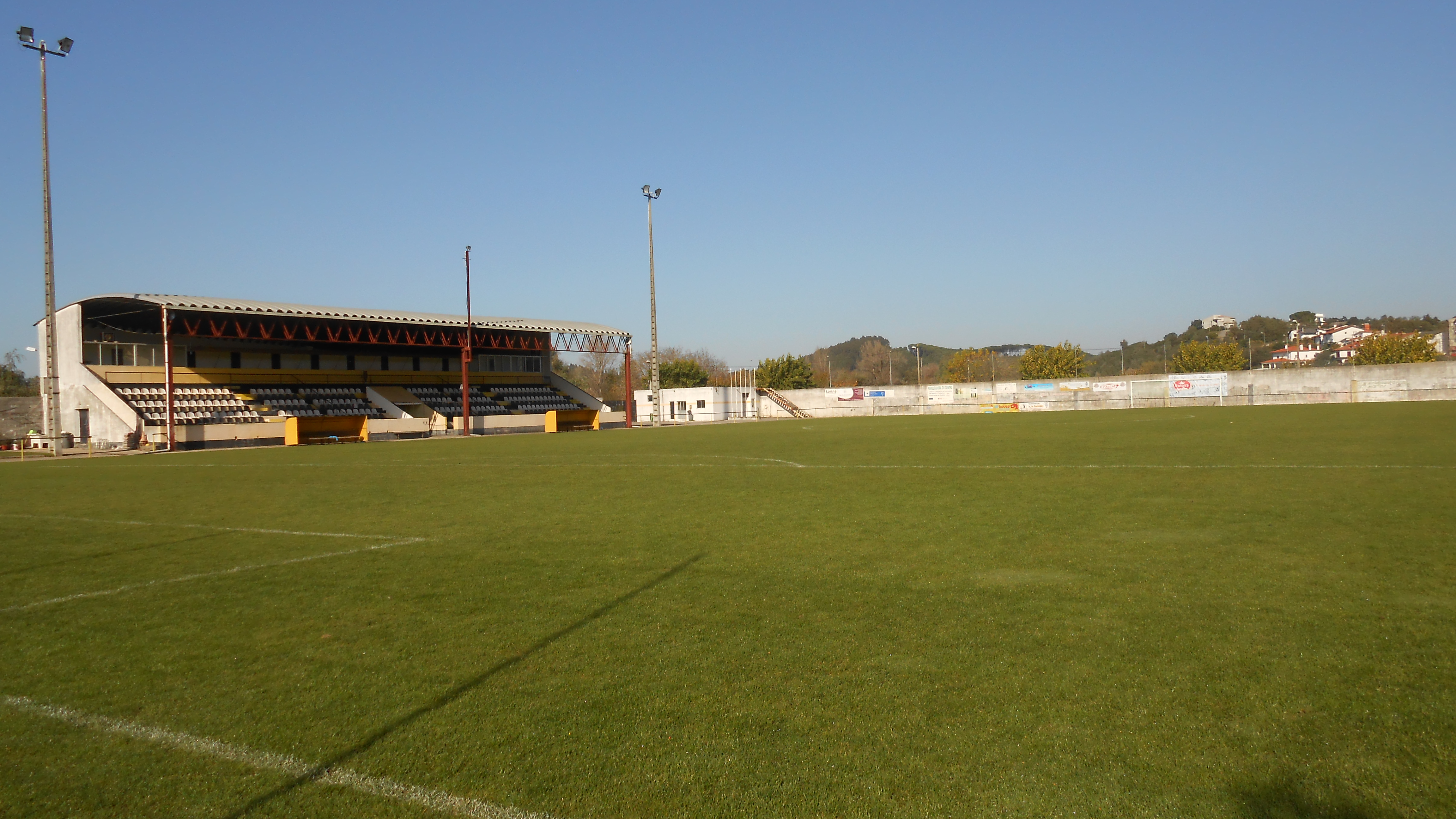 Inside "Campo Dr. António Coelho Rodrigues", the stadium of the GD Sourense football club in the portuguese town of Soure.